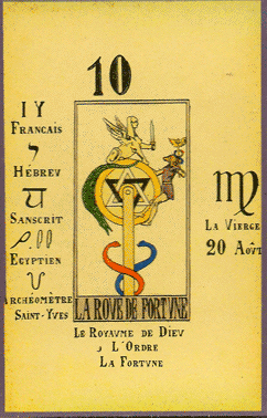 Page with tarot trump design from Papus: Le Tarot Divinatoire. Le Livre des Mystères et les Mystères du Livre. Clef du tirage des cartes et des sorts. Avec la reconstitution complète des 78 lames du Tarot Égyptien et de la méthode d'interprétation. Les 22 arcanes majeurs et les 56 arcanes mineurs. Libr. Hermétique, Paris 1909.